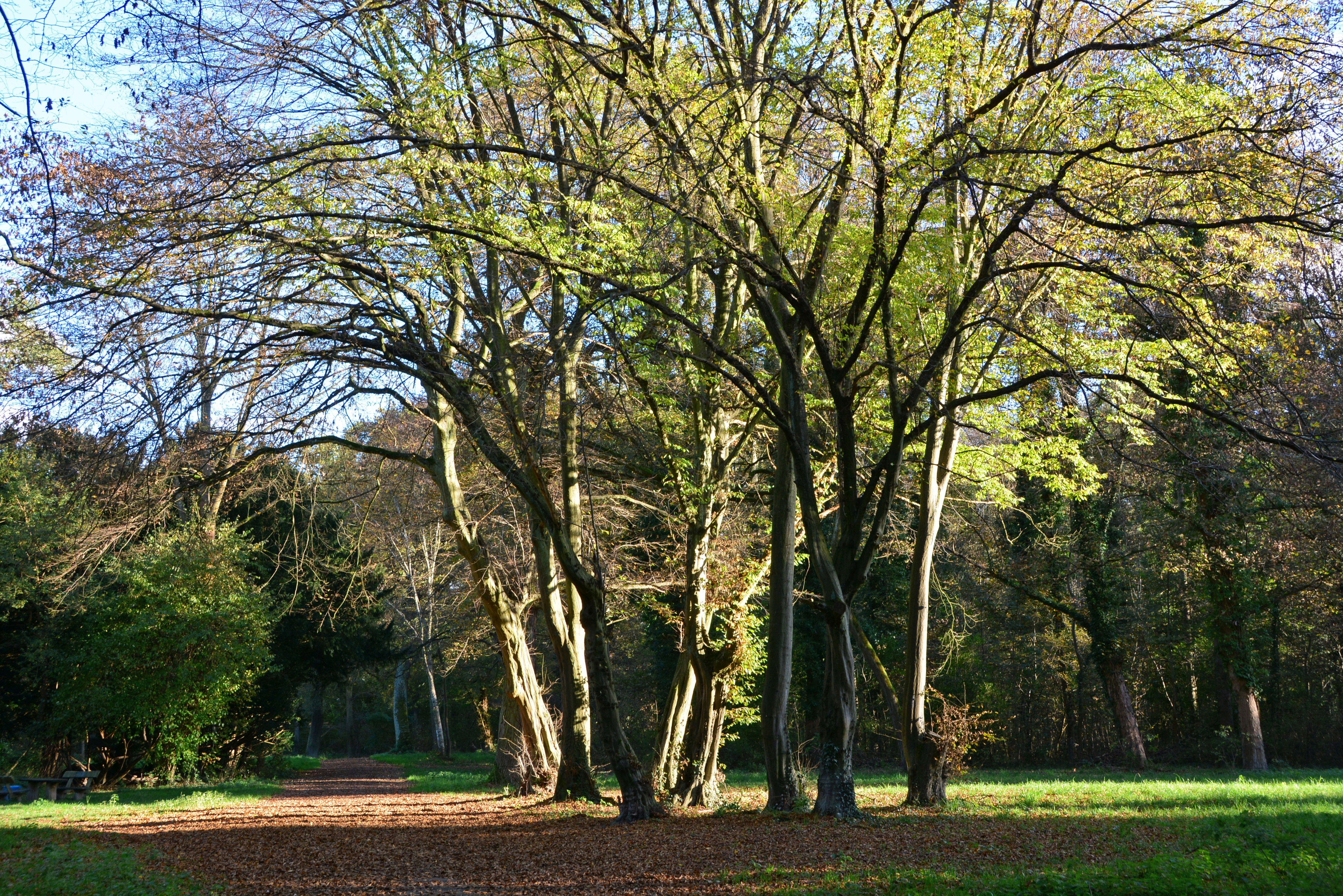 Forest park, Mannheim, Germany, near "star", a central place